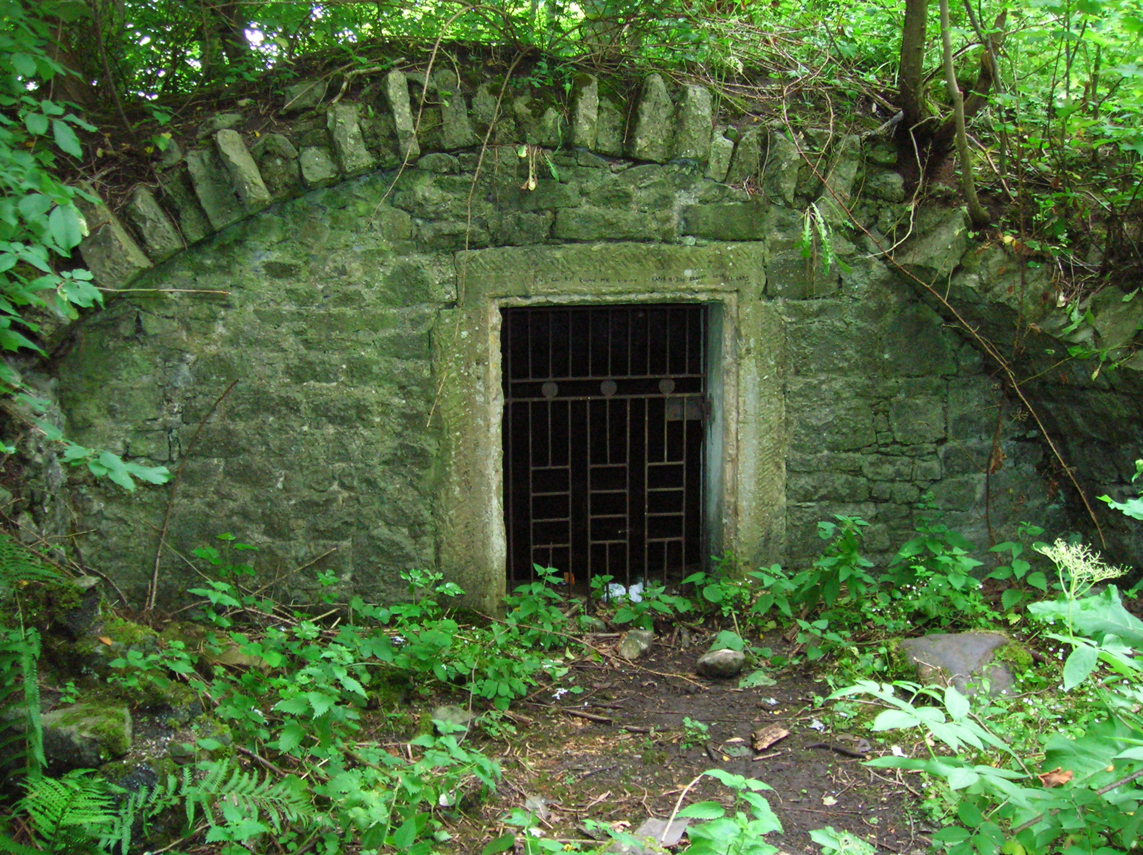 Fullarton ice house, old Crosbie Castle, Troon, Scotland.